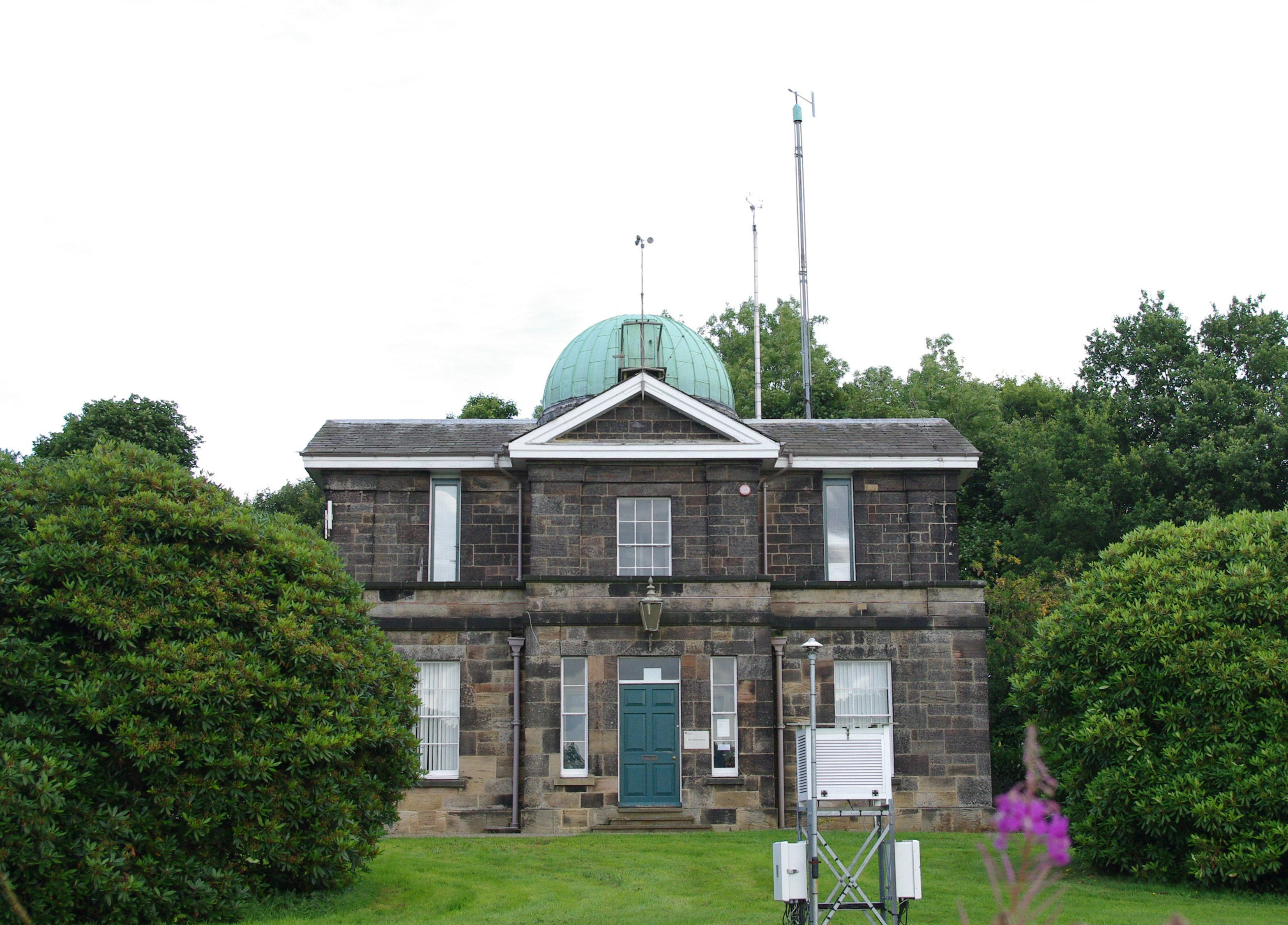 Taken by me, uploaded for the world!